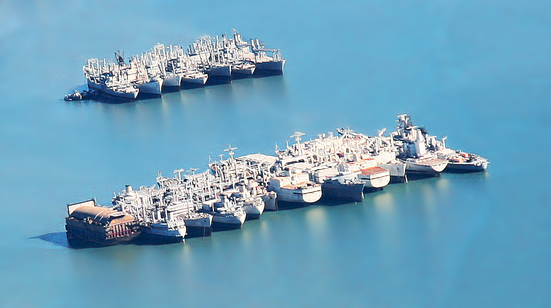 Aerial photograph of ships in Suisun Bay, California, mothballed for future defense use by the US Navy. A program is in place to tow the rustiest ones away for recycling. At the bottom left is the Howard Hughes barge HMB-1 which was for use with the Glomar Explorer, to transport defense-sensitive vessels in a manner protected from observation. Also visible in that group is the 1943 Battleship USS Iowa